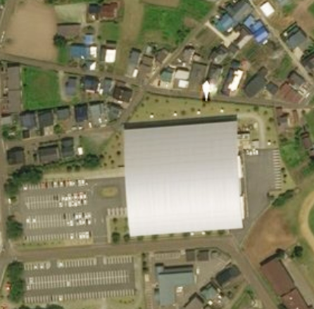 Satellite view, Takumi Arena